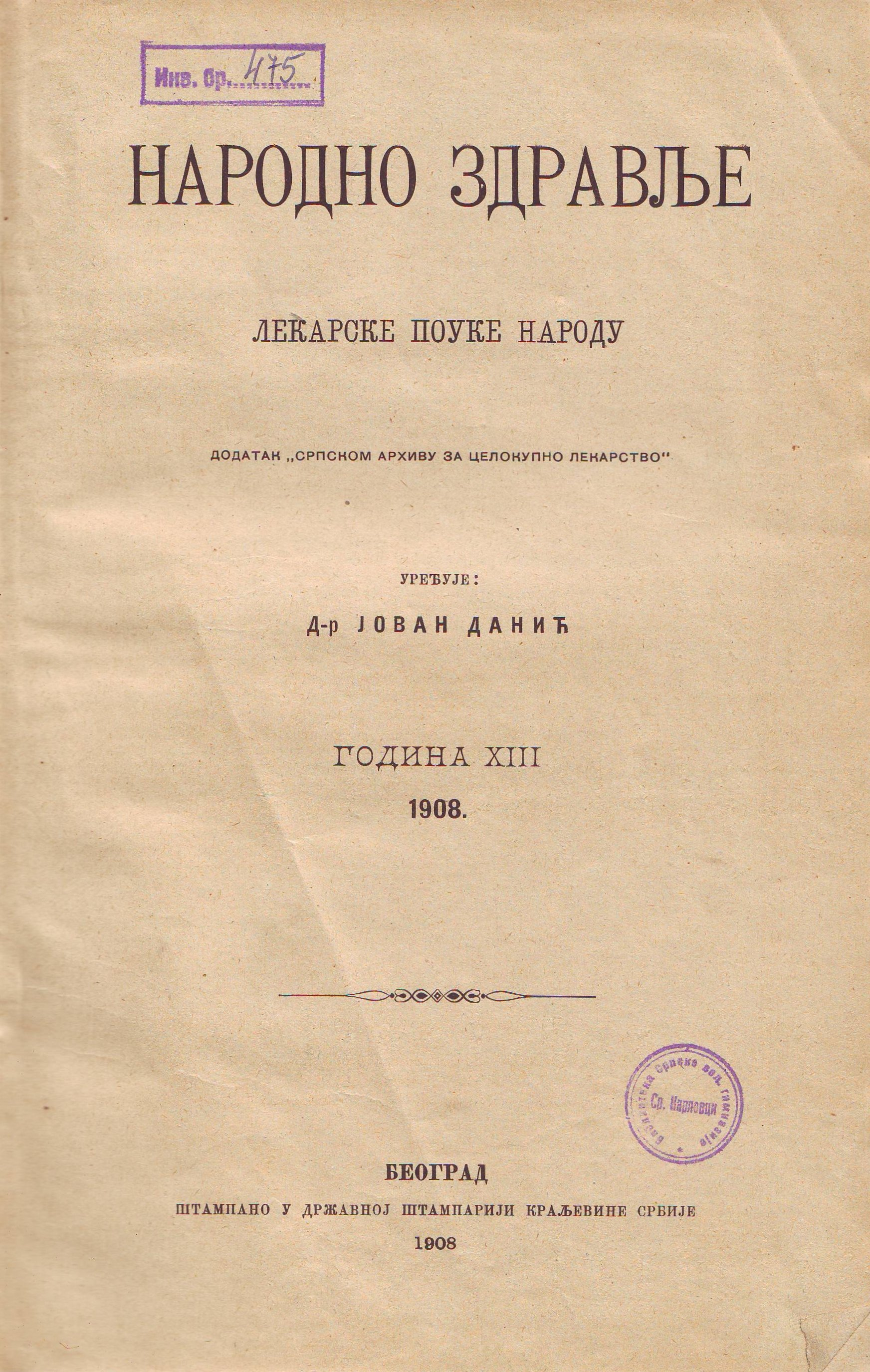 The front page of the 1908 issue of the magazine for health education Narodno zdravlje. Srpski (latinica): Naslovna strana izdanja časopisa za zdravstvenu edukaciju Narodno zdravlje za 1908. godinu.